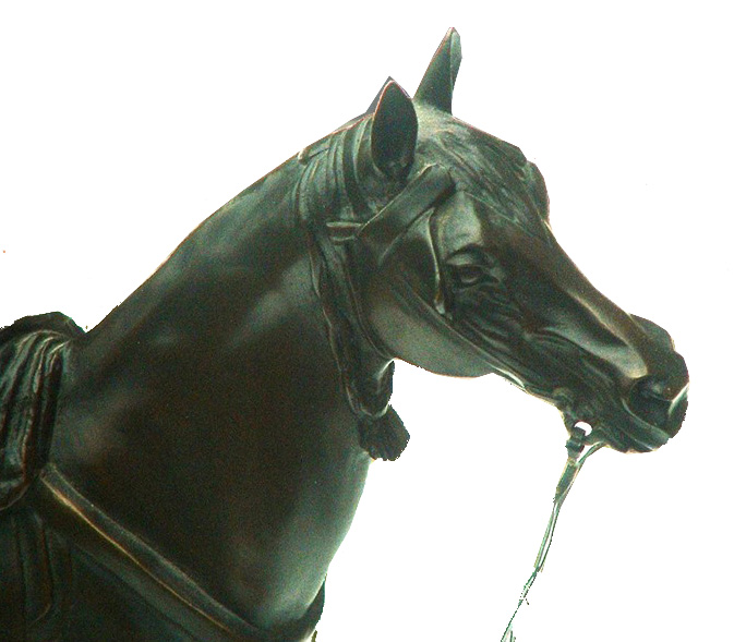 head of a bronze horse made by Gaston d'Illiers in 1925 called "jument arabe" (arabian mare)